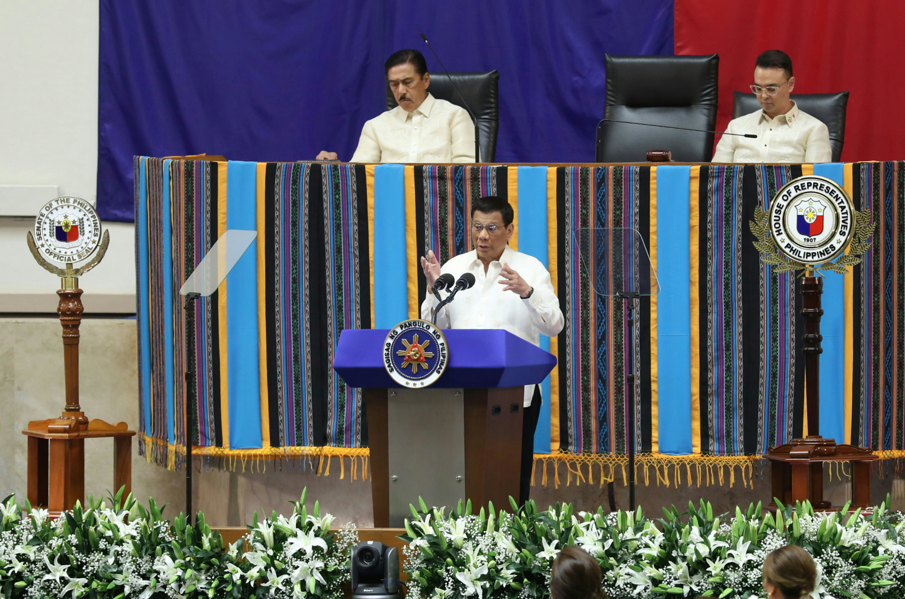 President Rodrigo Roa Duterte delivers his fourth State of the Nation Address (SONA) at the House of Representatives, Batasang Pambasa Complex, in Quezon City. on Monday (July 22, 2019). Also in photo (left) Senate President Vicente "Tito" Castelo Sotto III, and House Speaker Allan Peter Cayetano of the 18th Congress .